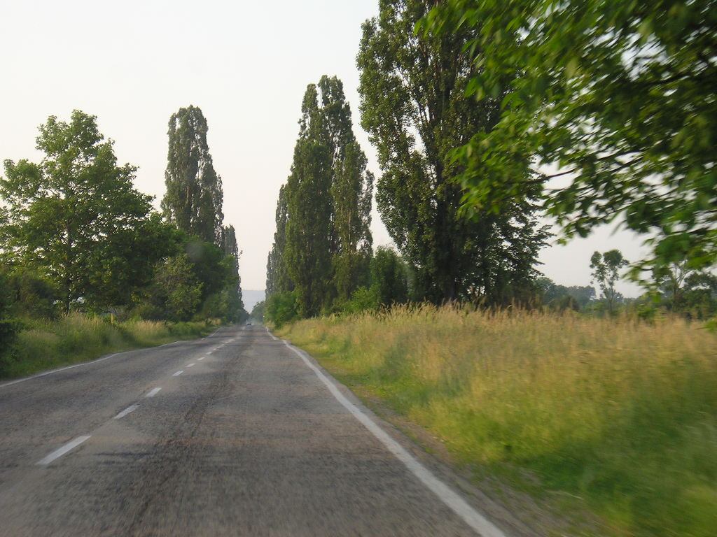 Photo of Road 81 in Bulgaria, Lomsko chaussee